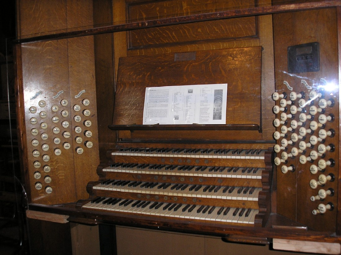 taken by Valdoria August 2006